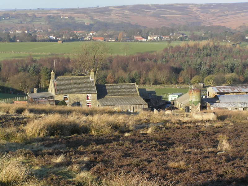 Photo taken by Colin Grice, February 2007 4wd 23:00, 18 March 2007 (UTC)